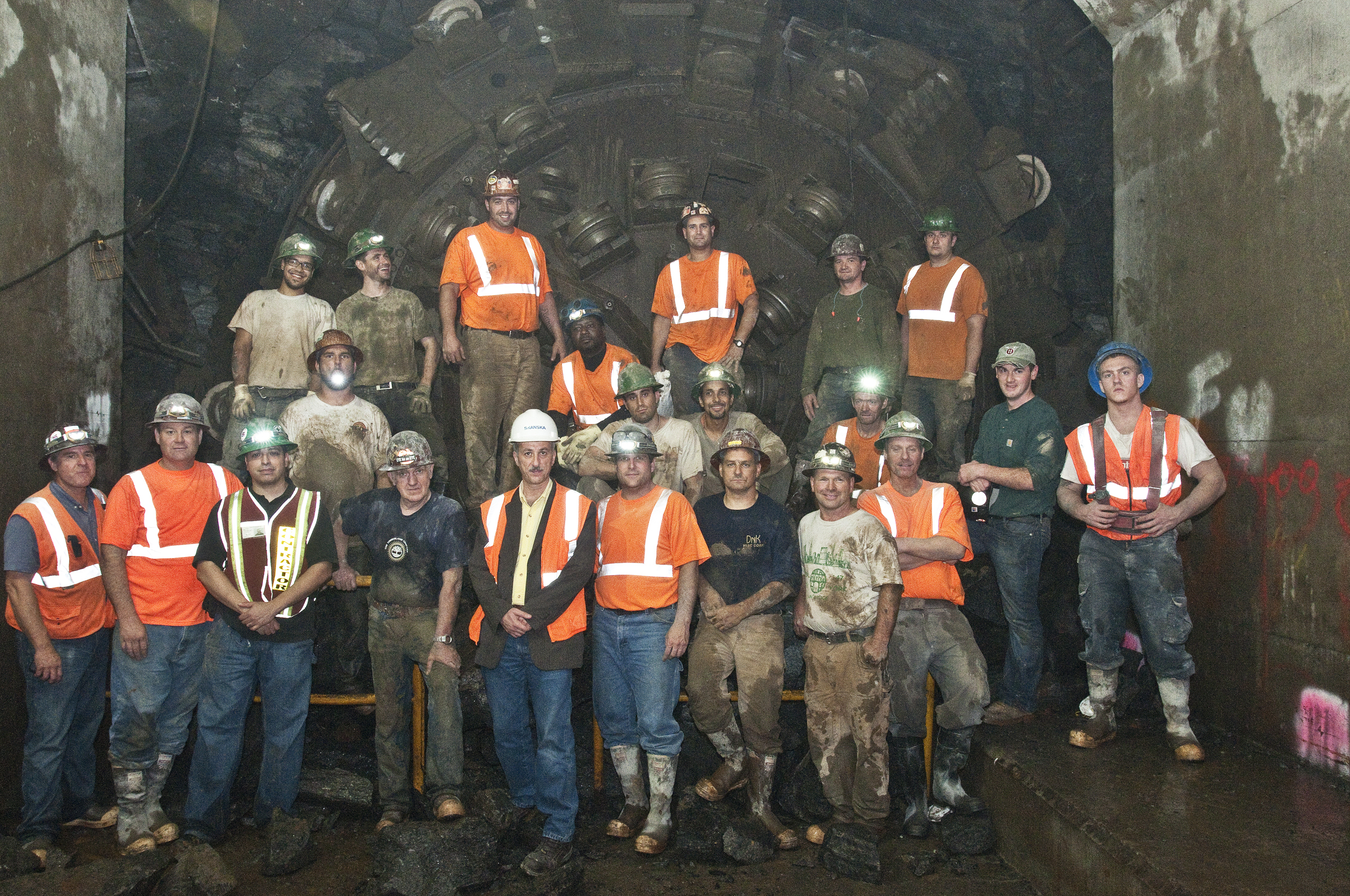 Workers completed tunneling for the first phase of the Second Avenue Subway on Sept. 22, 2011, when the project's tunnel boring machine reached the BMT 63rd Street Line, breaking into the existing subway system. The 485-ton, 450-foot-long TBM used a 22-foot diameter cutterhead to mine 7,789 linear feet in two tunnels, averaging approximately 60 linear feet a day.